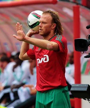 Vitaliy Denisov